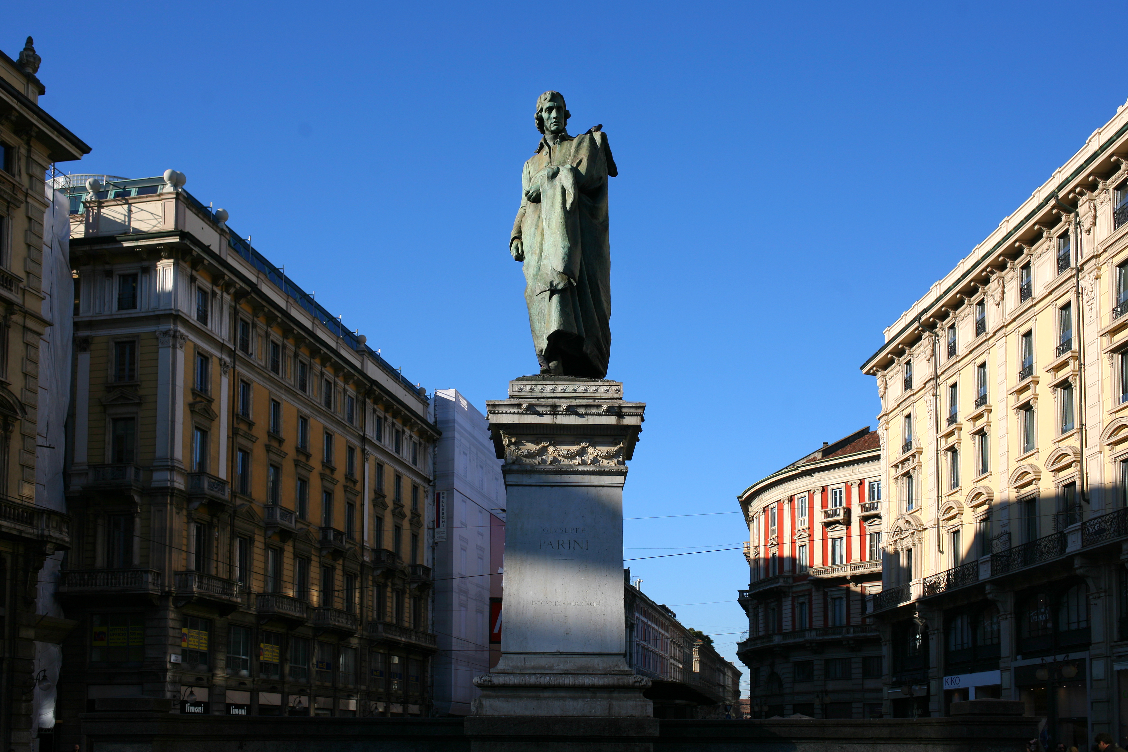 Luigi Secchi (sculptor) and Luca Beltrami (architectural work): Monument for Giuseppe Parini (1899) on Piazza Cordusio, Milan, inaugurated November 26, 1899.